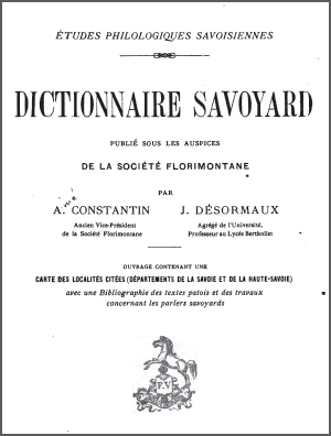 Dictionary of Savoyard language by Aimé Constantin and Joseph Désormaux.